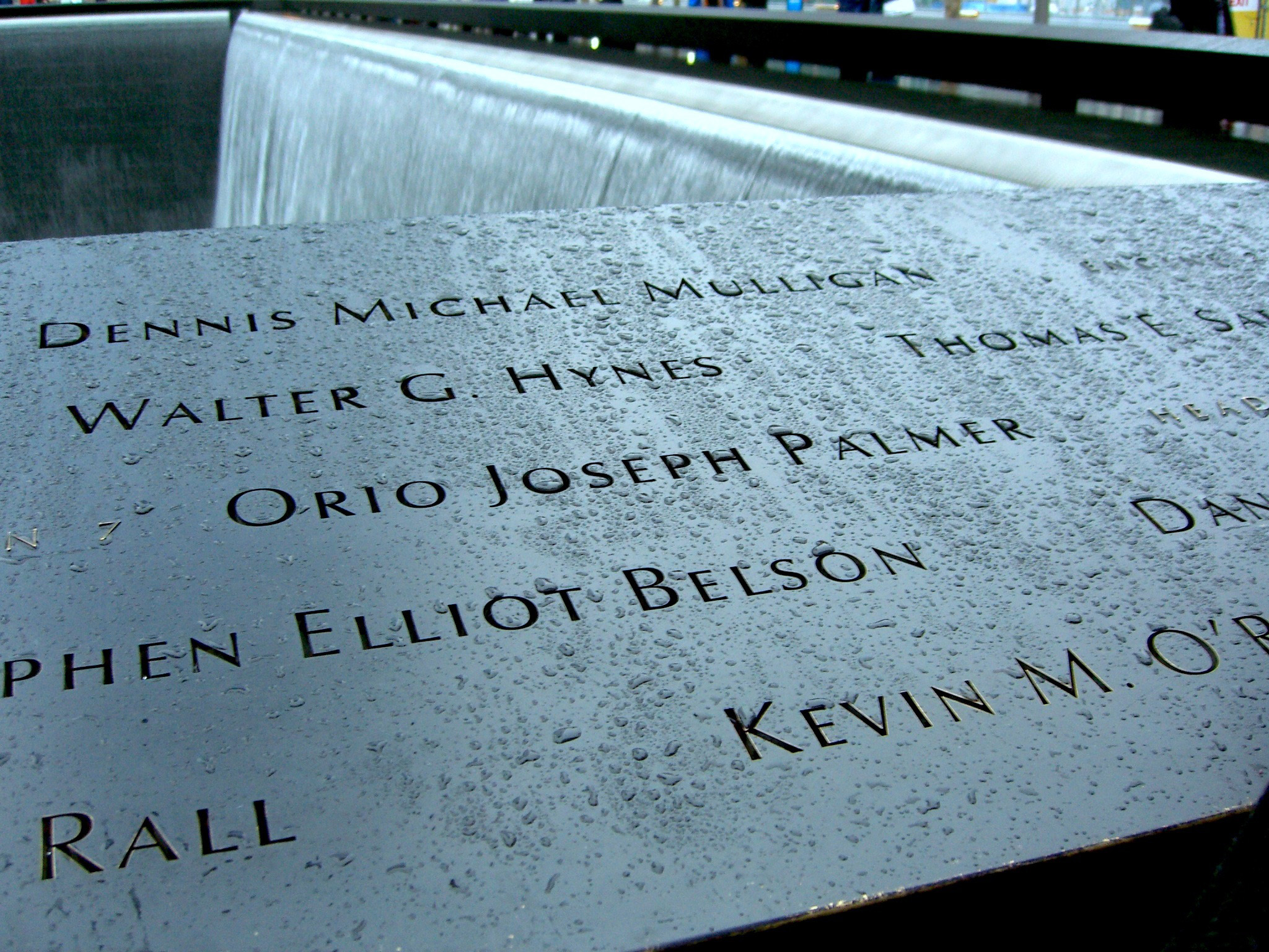 The name of Orio Palmer is seen among those of other first responders inscribed on bronze panel S-17 of the South Pool of the National September 11 Memorial in Manhattan, on December 6, 2011. This photo was created by Luigi Novi. If you have any questions, you can contact me by sending me an email or User talk:Nightscream